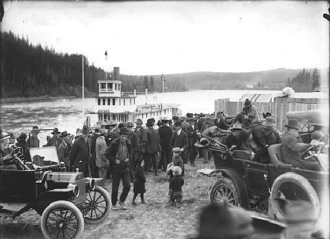 South Fort George Landing, British Columbia, Canada